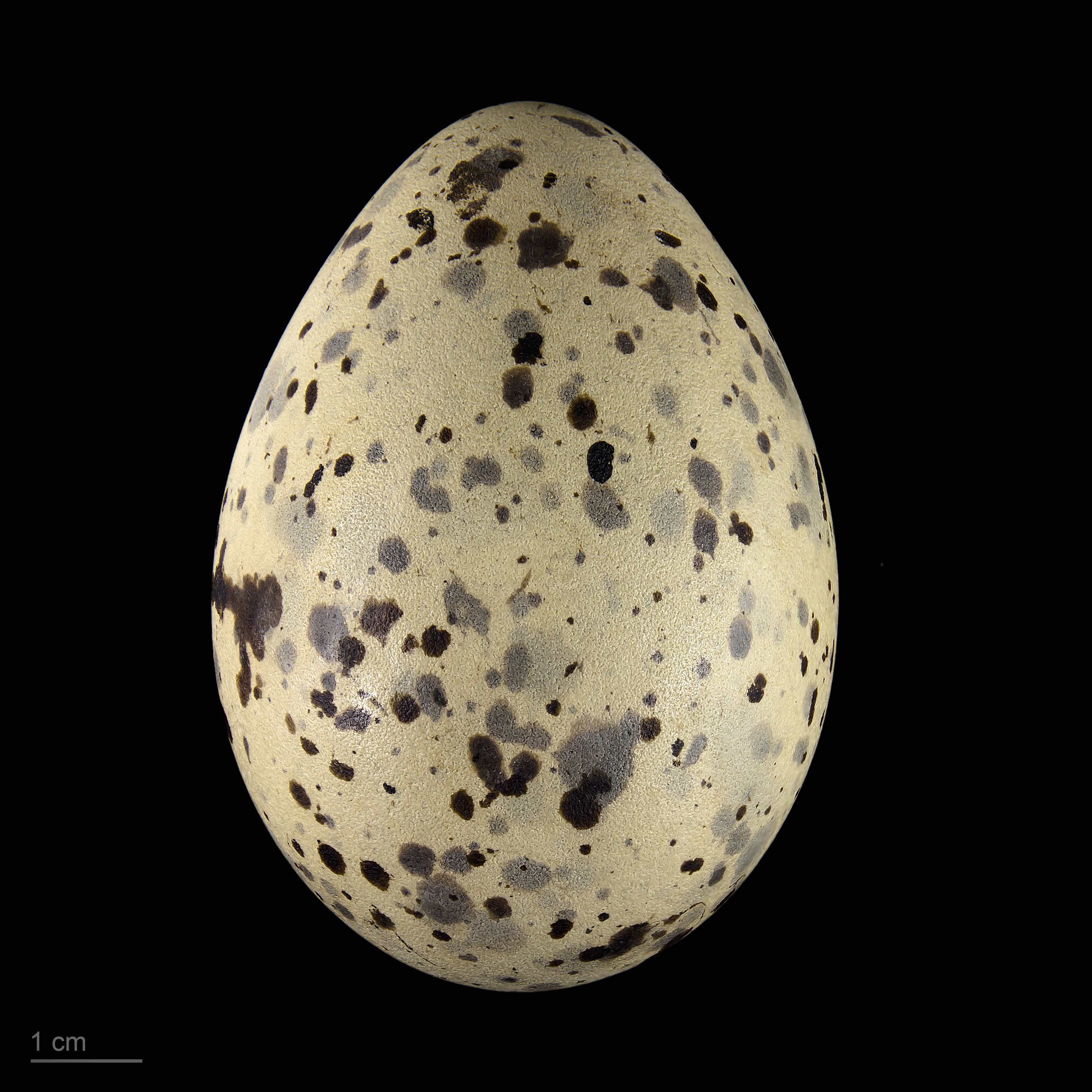 Eggs of yellow-legged gull collection of Jacques Perrin de Brichambaut.